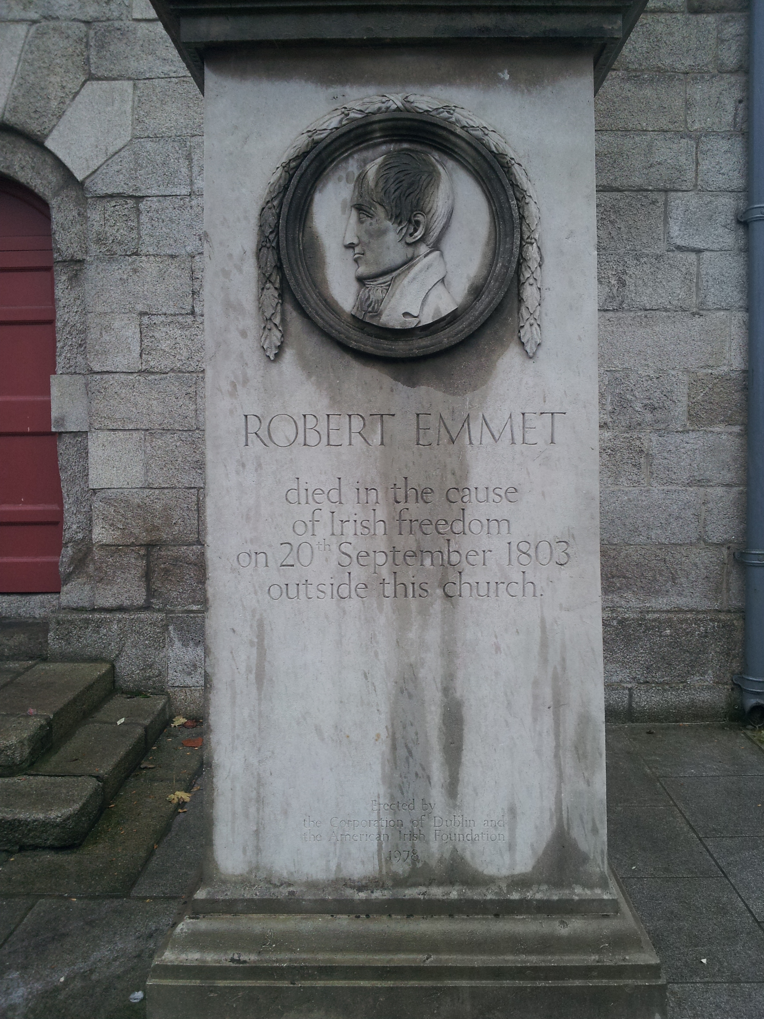 Robert Emmet's death marker